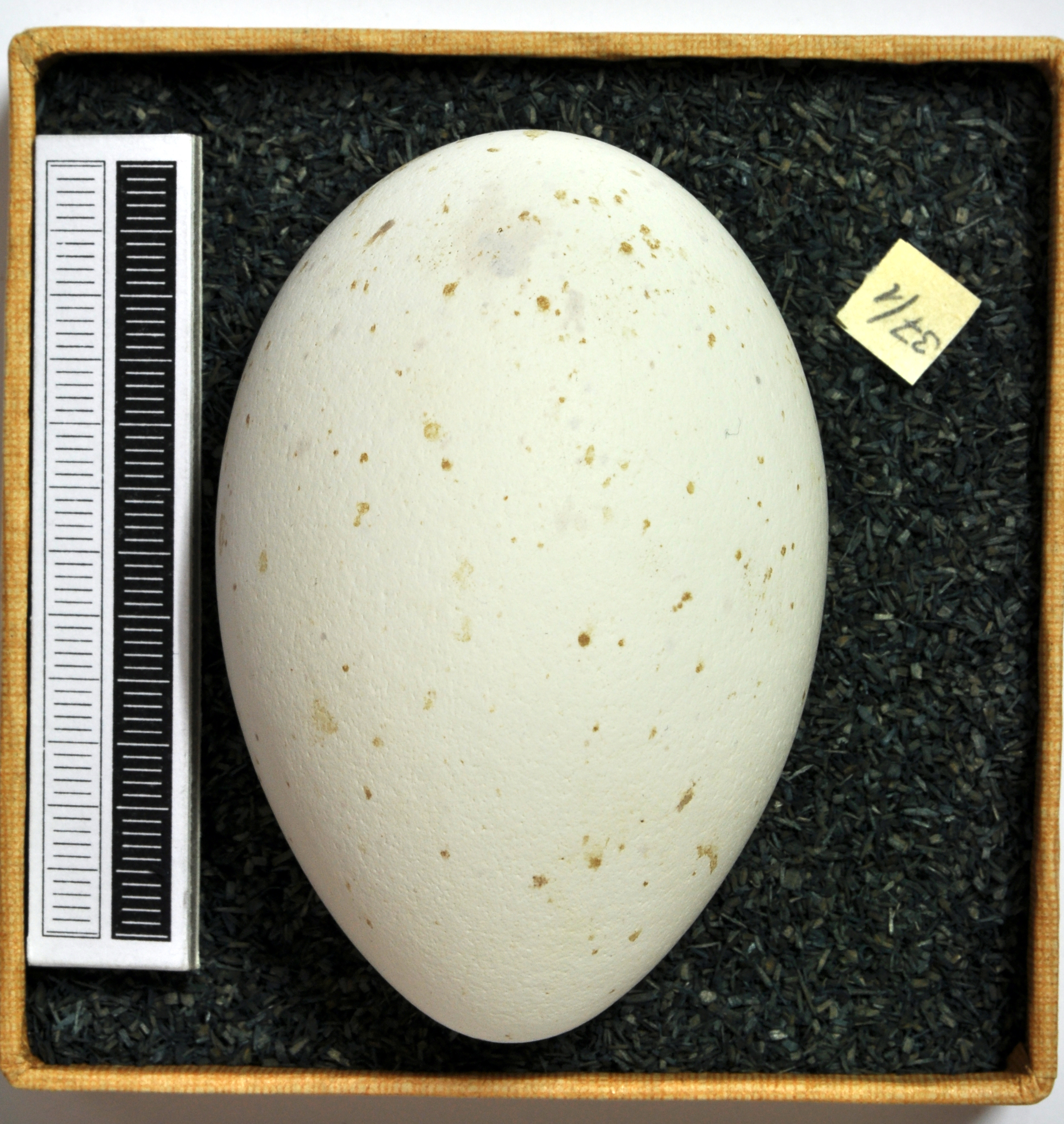 Eurasian spoonbill Platalea leucorodia, egg, Coll. Museum Wiesbaden, Origin: Konya-Steppe, Turkey, 23.05.1972, leg. W. Abelmann